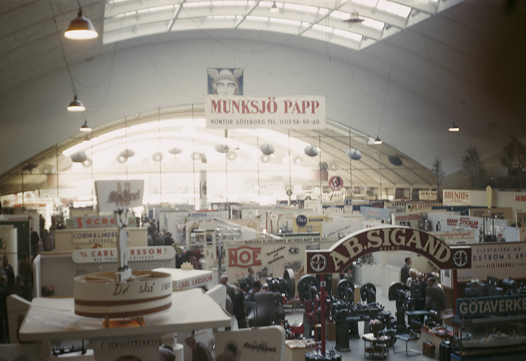 Svenska Mässan in Gothenburg - Swedish exhibition and congress centre. The exhibition hall